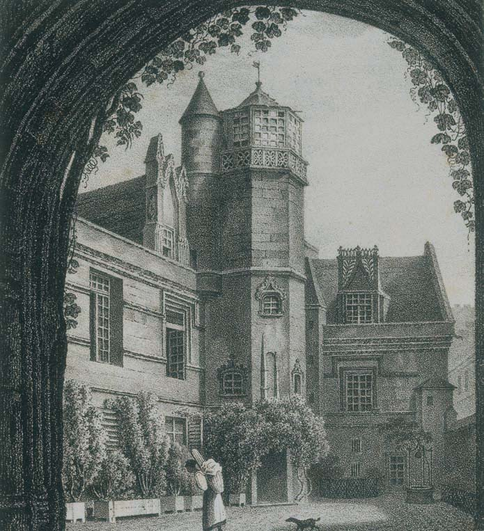 Drawing of the Hôtel de Cluny, from the beginning of the nineteenth century. The wood an glass structure at the top is the Marine Observatory where astronomer Charles Messier discovered 15 comets and observed objects he compiled into his "Messier catalogue" of 110 astronomical objects.